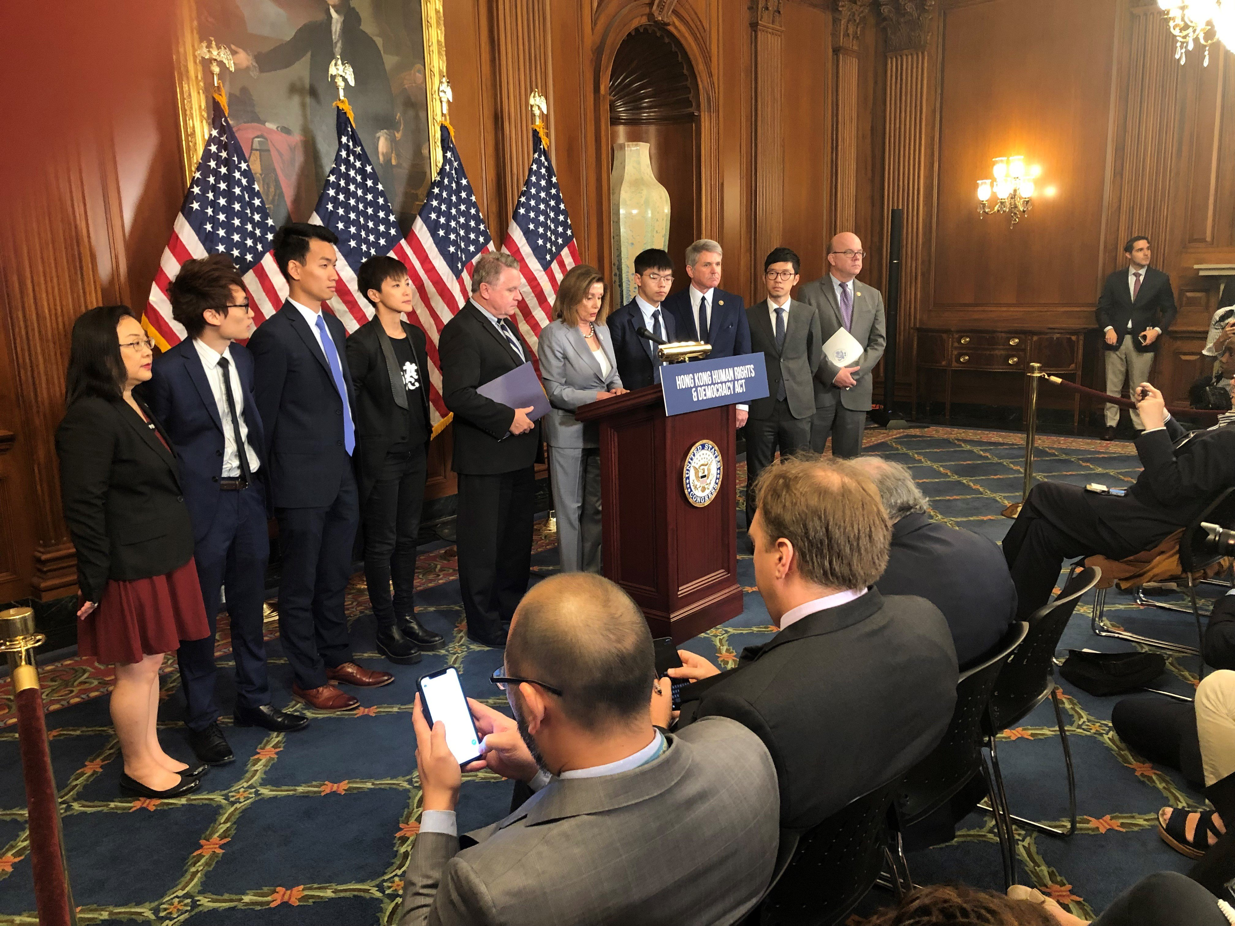 "This is a battle between democracy vs dictatorship, liberty vs tyranny & freedom vs oppression. "The world will not stand idly by as the Chinese Communist Party continues to commit human rights violations." - Lead Republican Michael McCaul on Hong Kong Human Rights & Democracy Act